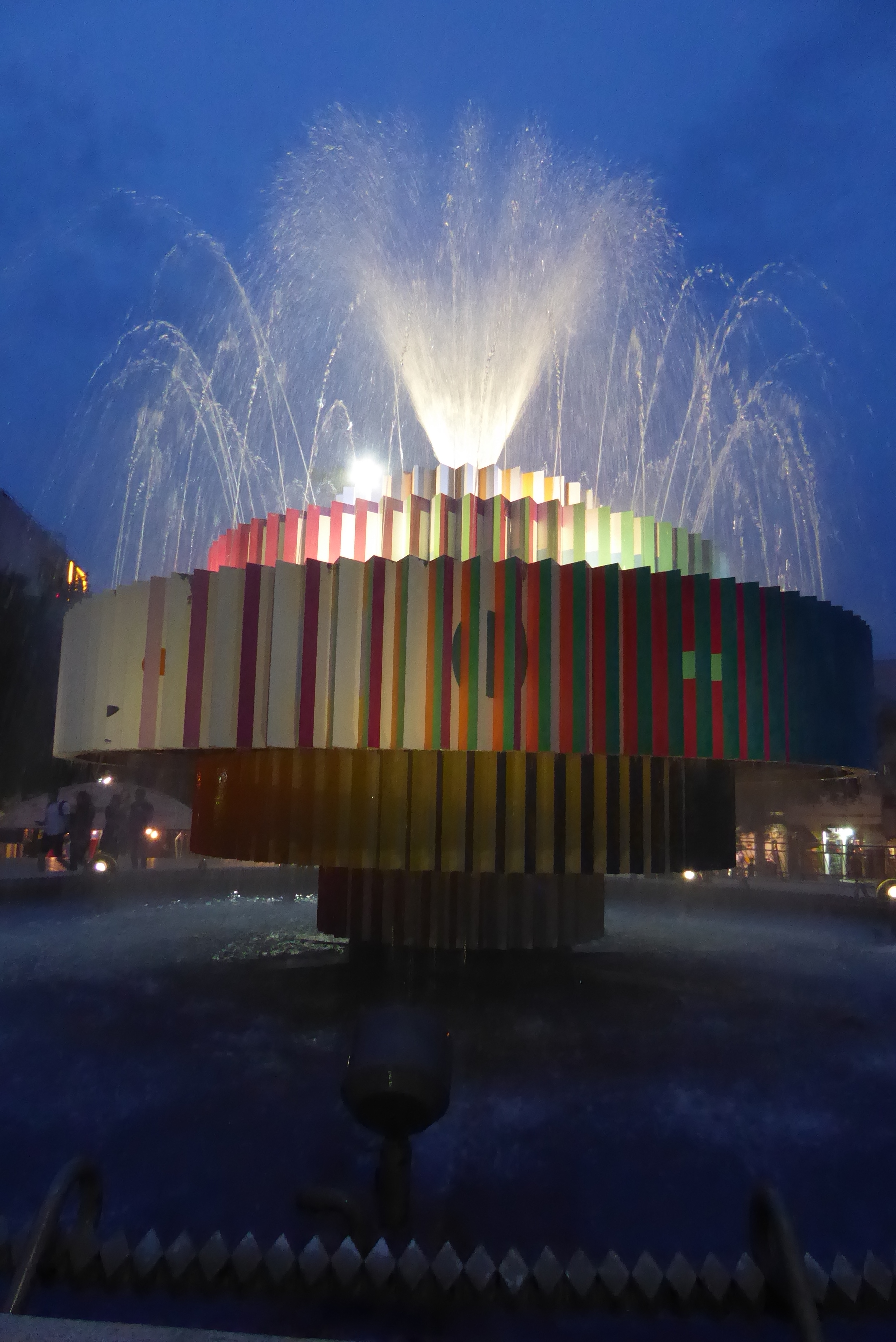 Dizengoff Square